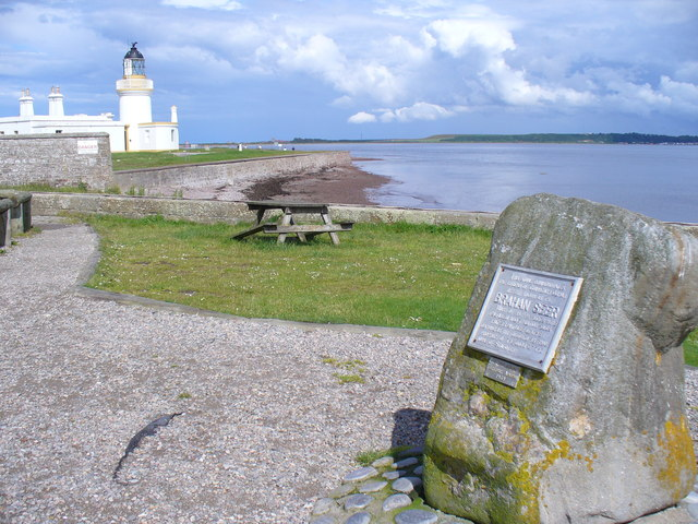 Brahan Seer Memorial Choinnich Odhar (Kenneth Orr) was a famous Highland fortune teller who was said to have predicted such as the finding of North Sea oil. He is reputed to have been burned here at Chanonry Point. Behind is the lighthouse and the Fort George peninsula on the other side of the Moray Firth. Chanonry Point today is a famous place for spotting dolphins and porpoises.